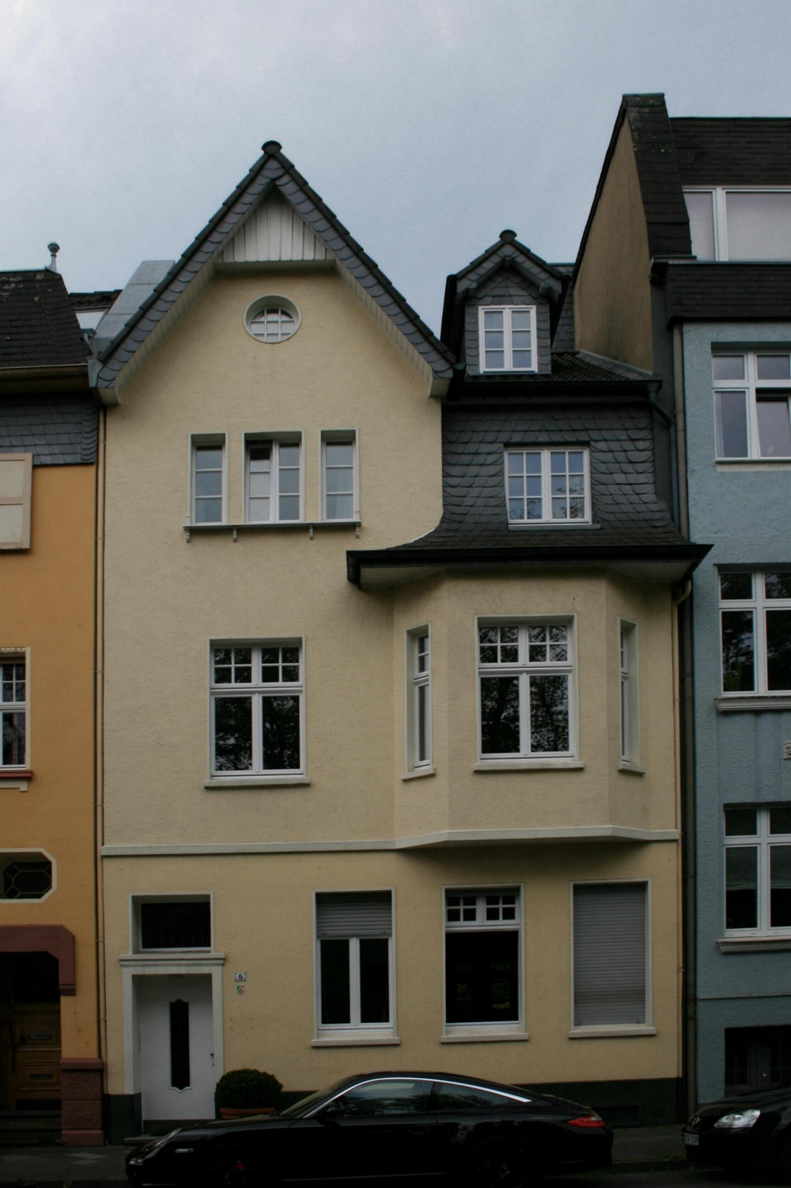 Cultural heritage monument No. B 135 in Mönchengladbach